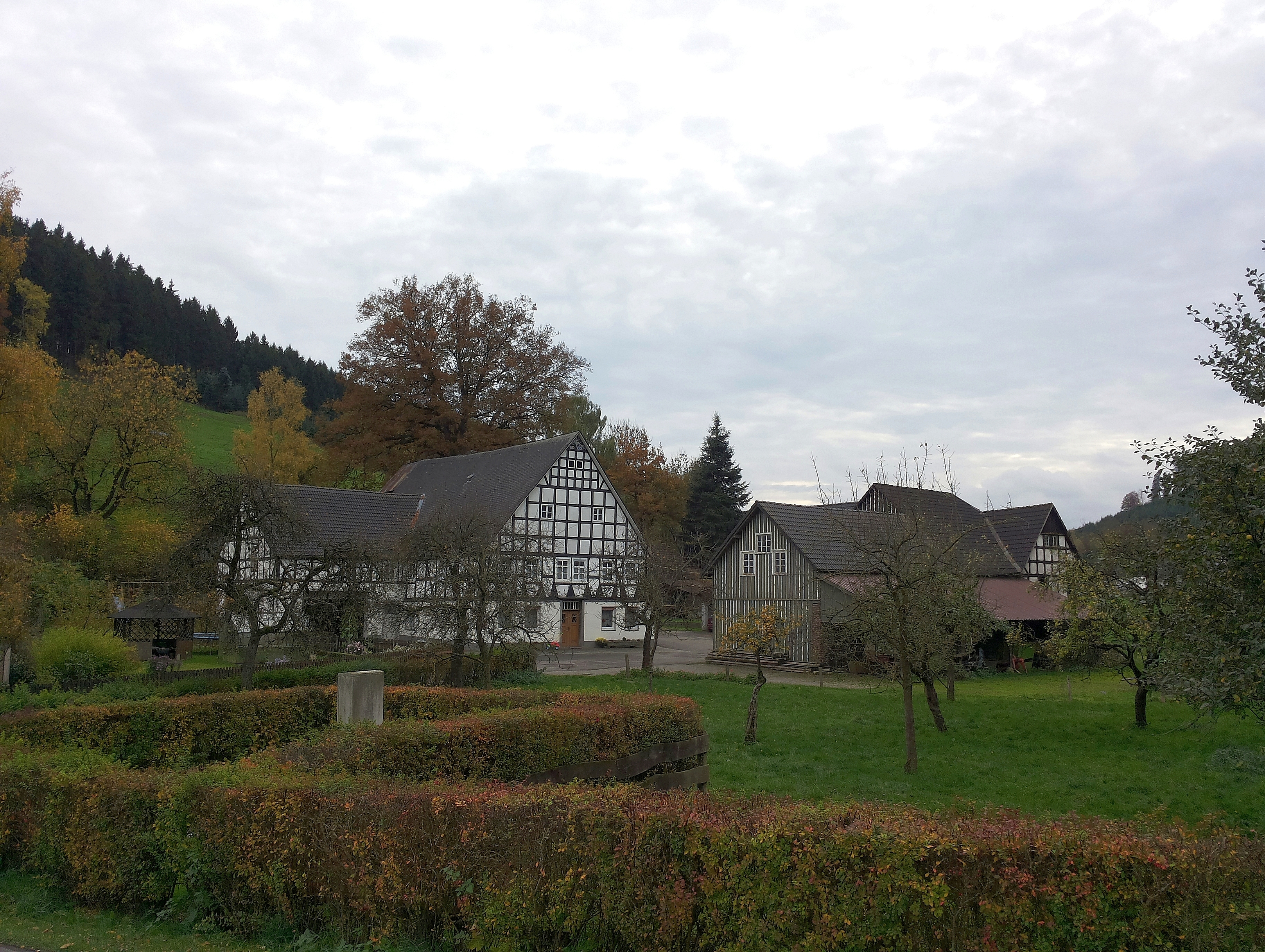 Hof in Eslohe-Sallinghausen (Germany)